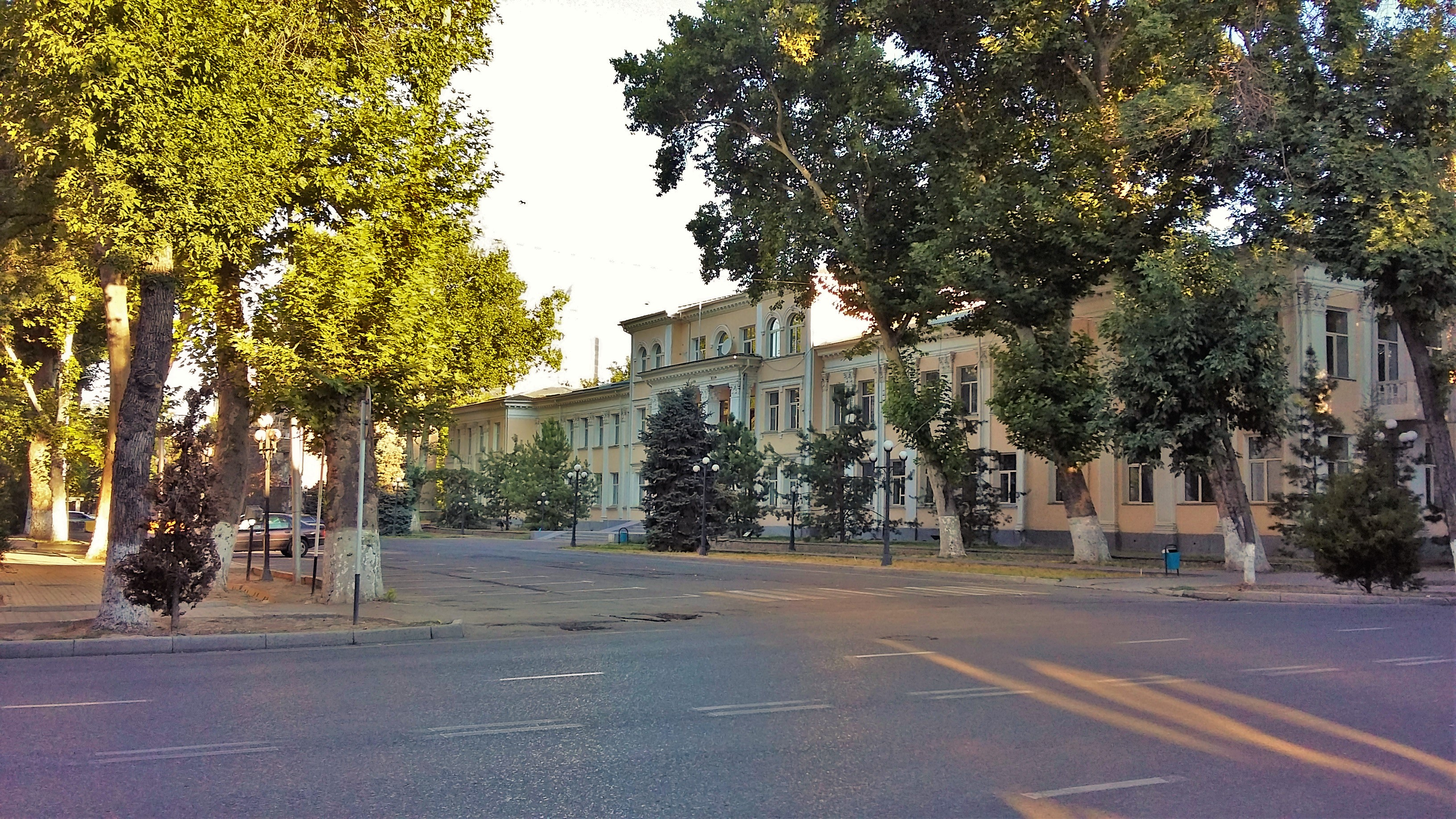 Old building of city administration